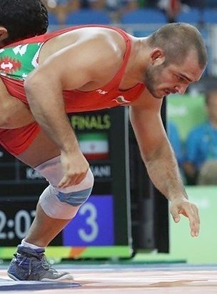 2016 Summer Olympics, Men's Freestile Wrestling 86 kg